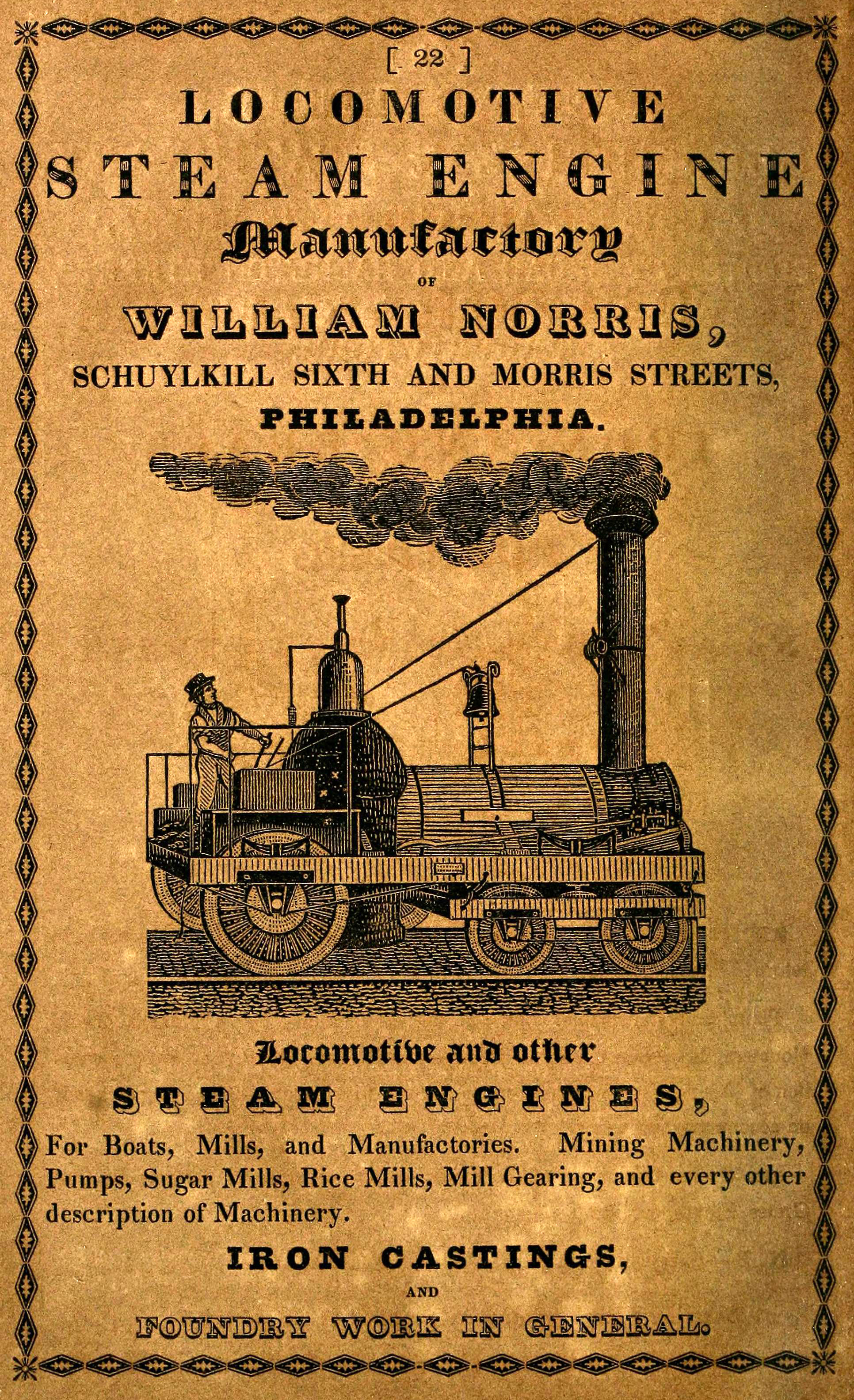 Advertisement for the Philadelphia workshops of William Norris, a prominent early locomotive builder in the United States, who made locomotives for both American railways and exported to railways in Britain. Note that the "cut" (illustration) appears to be a generic one, and while typical of the 4-2-0 locomotives of the period, may not reflect a particular locomotive built by Norris; the same illustration was used on a Baldwin ad on the previous page of the same directory. Note: image has been significantly lightened from its original so as to be visible.